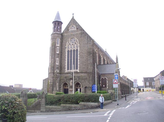 St Joseph's Cathedral, Swansea/Abertawe, Wales. This Roman Catholic cathedral was designed by Augustus Pugin and built as a parish church. It took two years to build at a cost of £10,000 and was opened in 1888. In 1987 it became a cathedral at the inauguration of the redefined Diocese of Menevia.